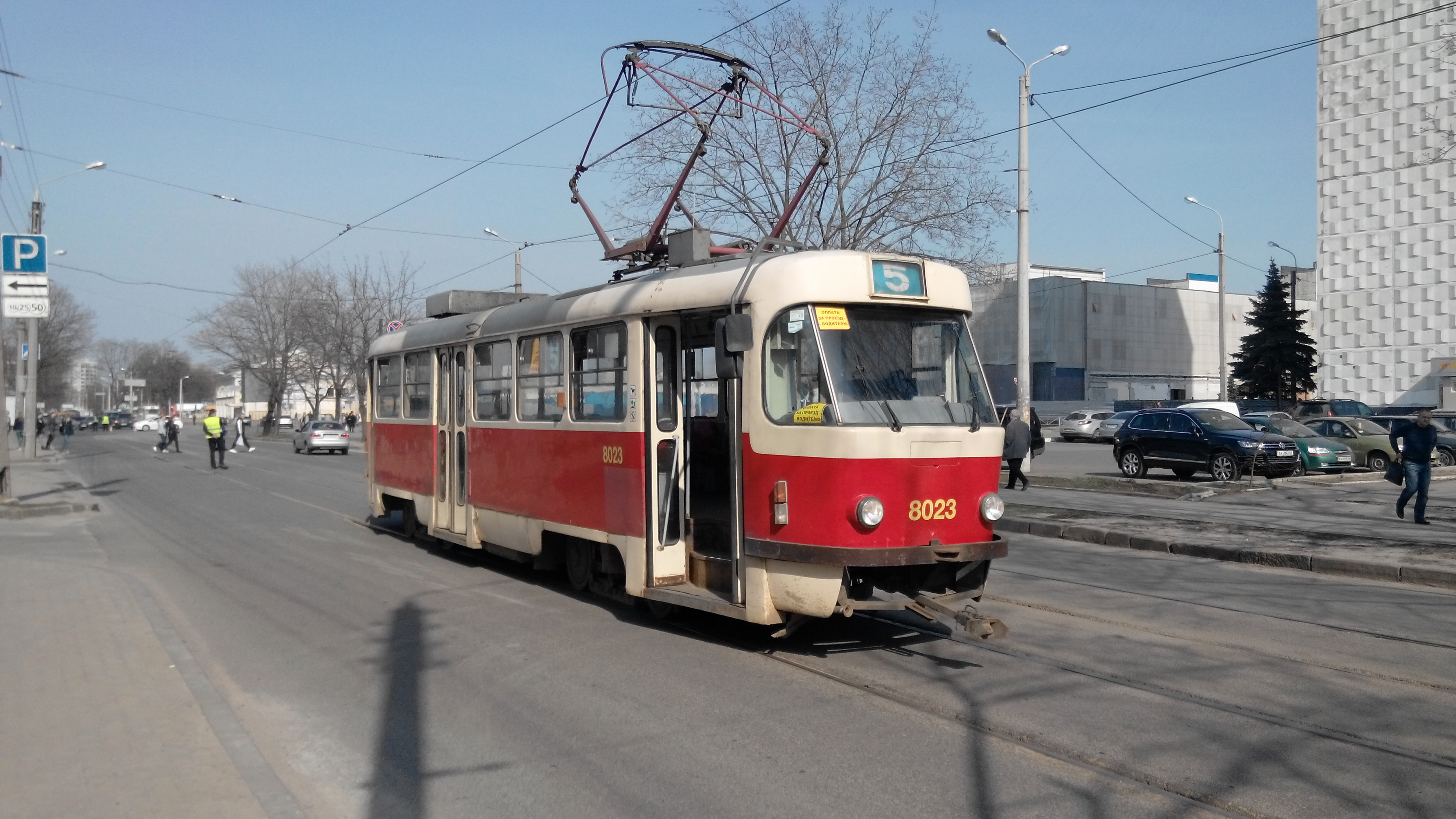 Tram Tatra T3 in the Kharkiv on a Molochna street